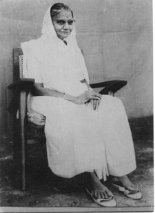 Photo taken in Mathura